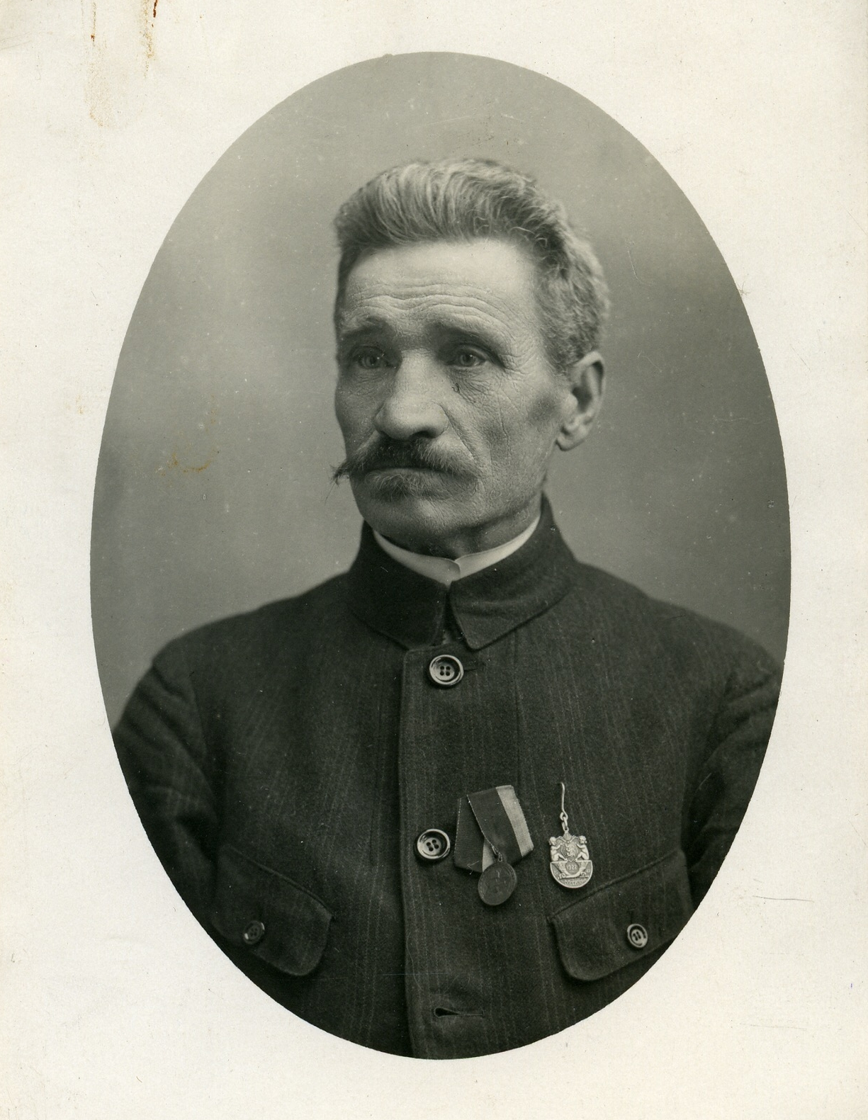 Portrait of Jaan Truusmann